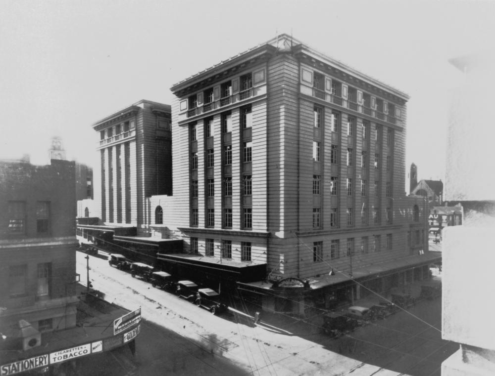 State Government Building, Brisbane, 1933 Photograph taken from Proud's Building, of the newly completed Government building. Bowman House is on the left. (Description taken from the Report of the Department of Public Works for the year ended 30 June 1933, p. 41.).